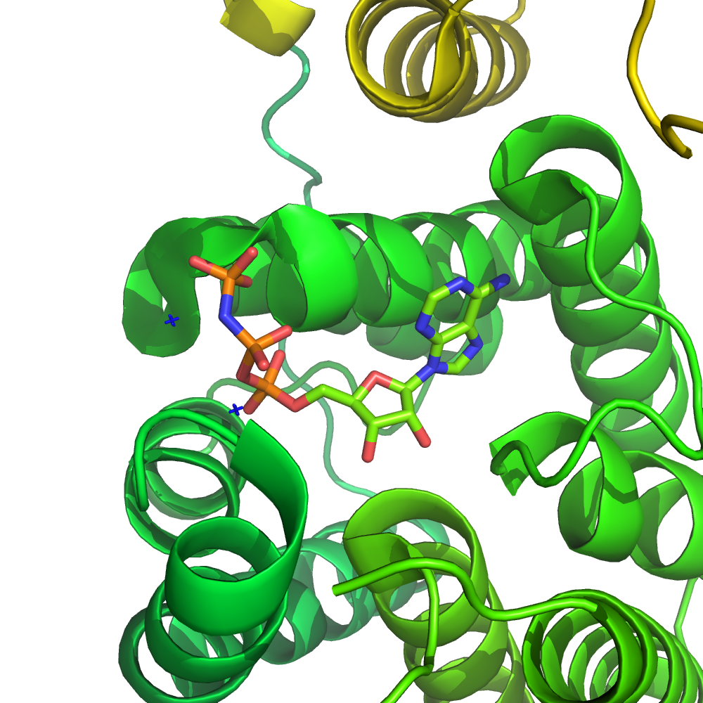 Coordinates from PDB ID:1UN9. In complex with AMP-PNP. Created with pymol.